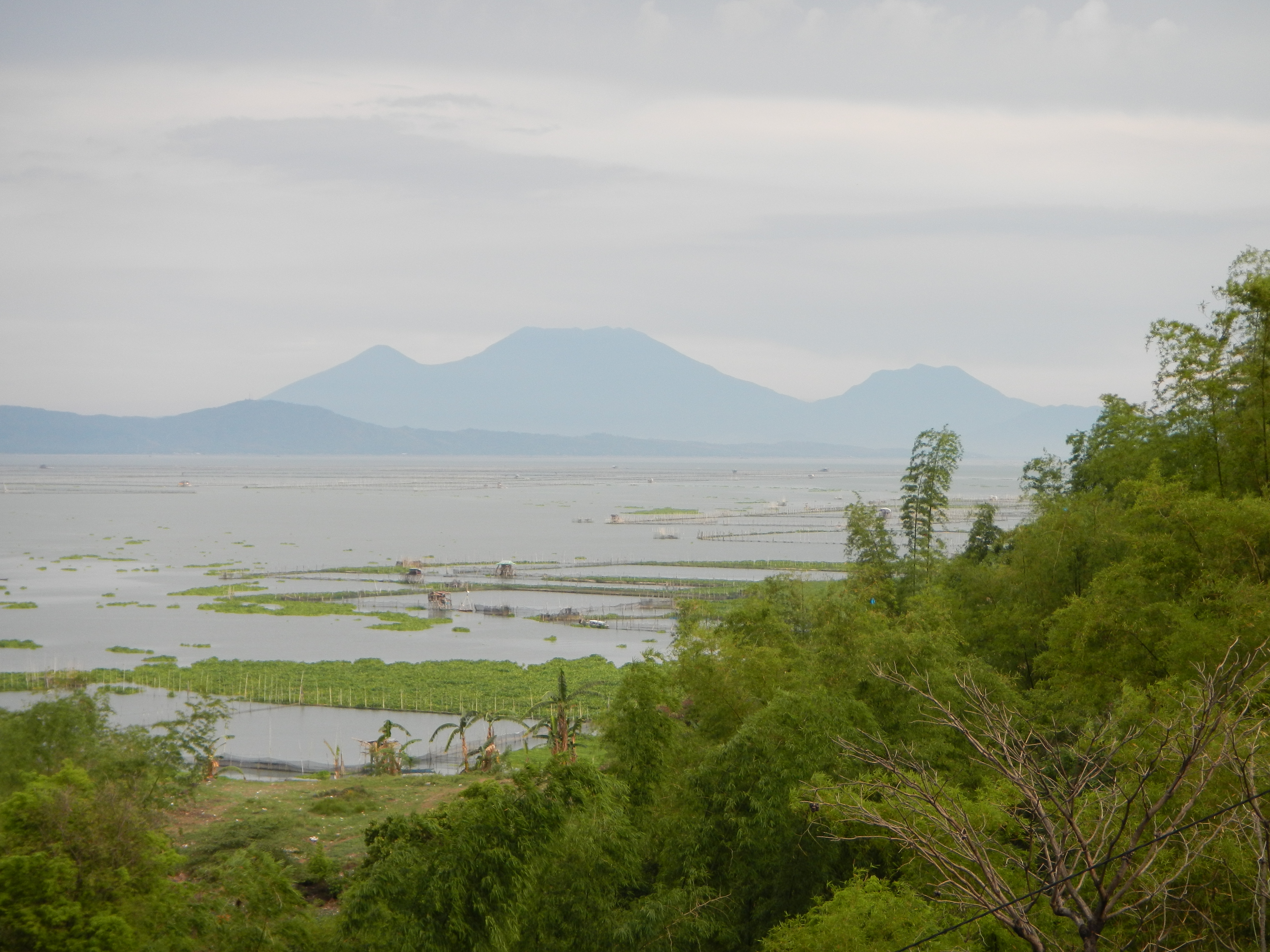 In the far distance from left to right, the peaks of Mounts Banahaw de Lucban, Banahaw and Mount San Cristobal as seen from Cardona, Rizal.